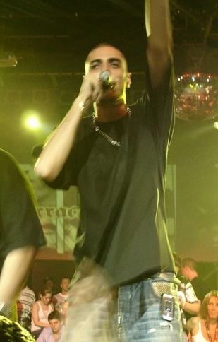 The italian rapper Marracash, member of Dogo Gang crew